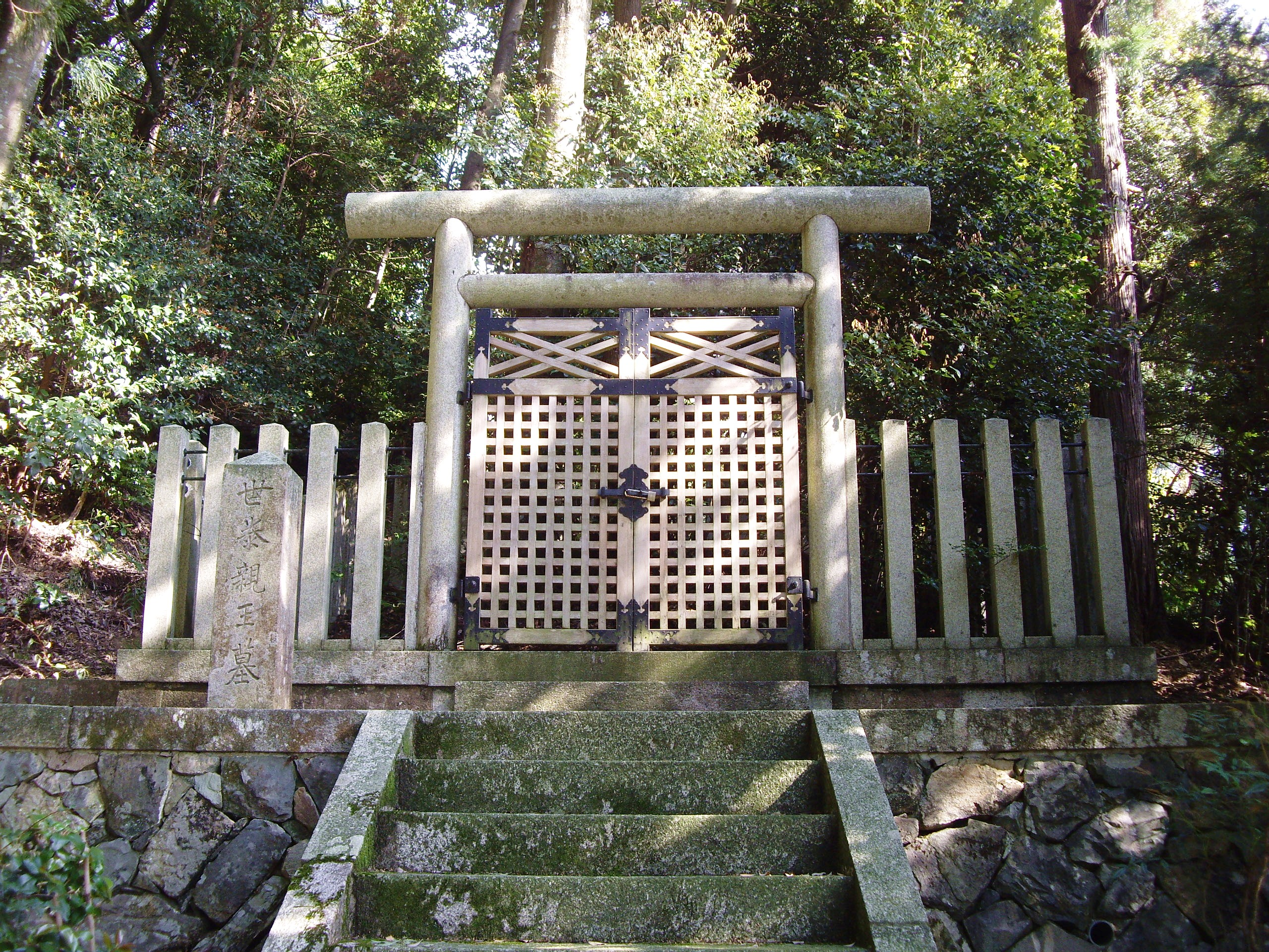 The Tomb of Prince Yoyasu, in Yoshino, Nara Prefecture, Japan